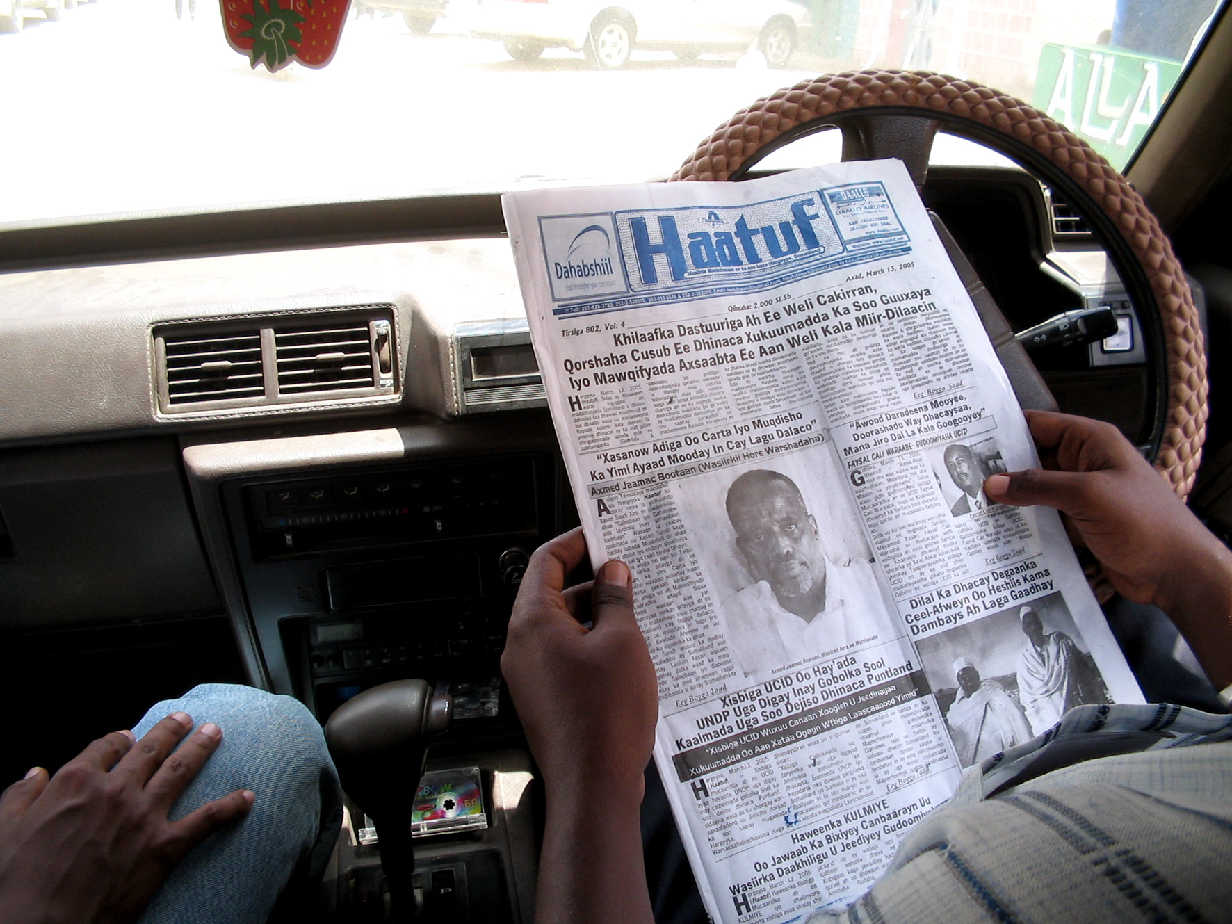 Haatuf newspaper of Hargesia